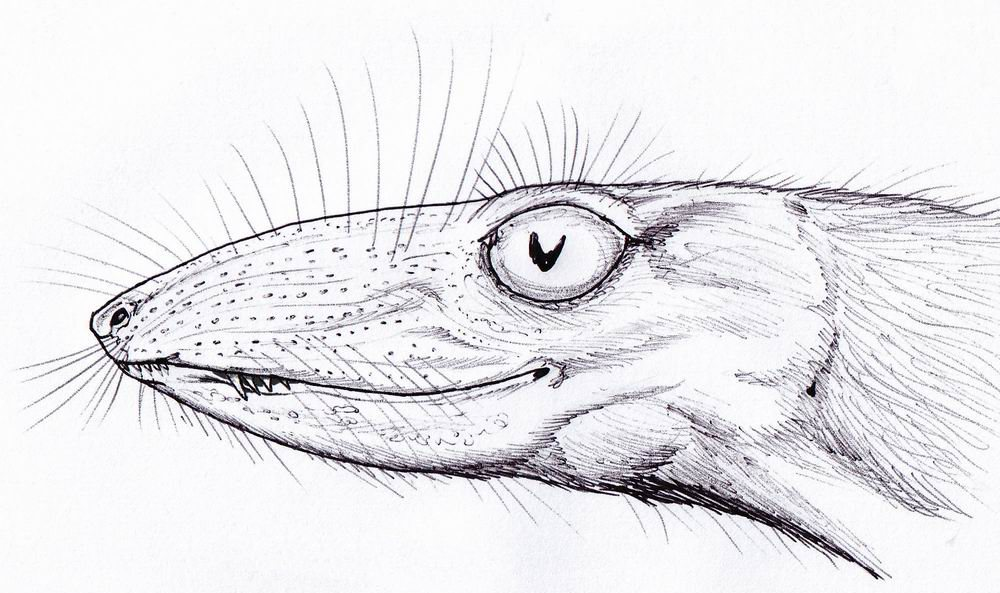 Scaloposaurus head